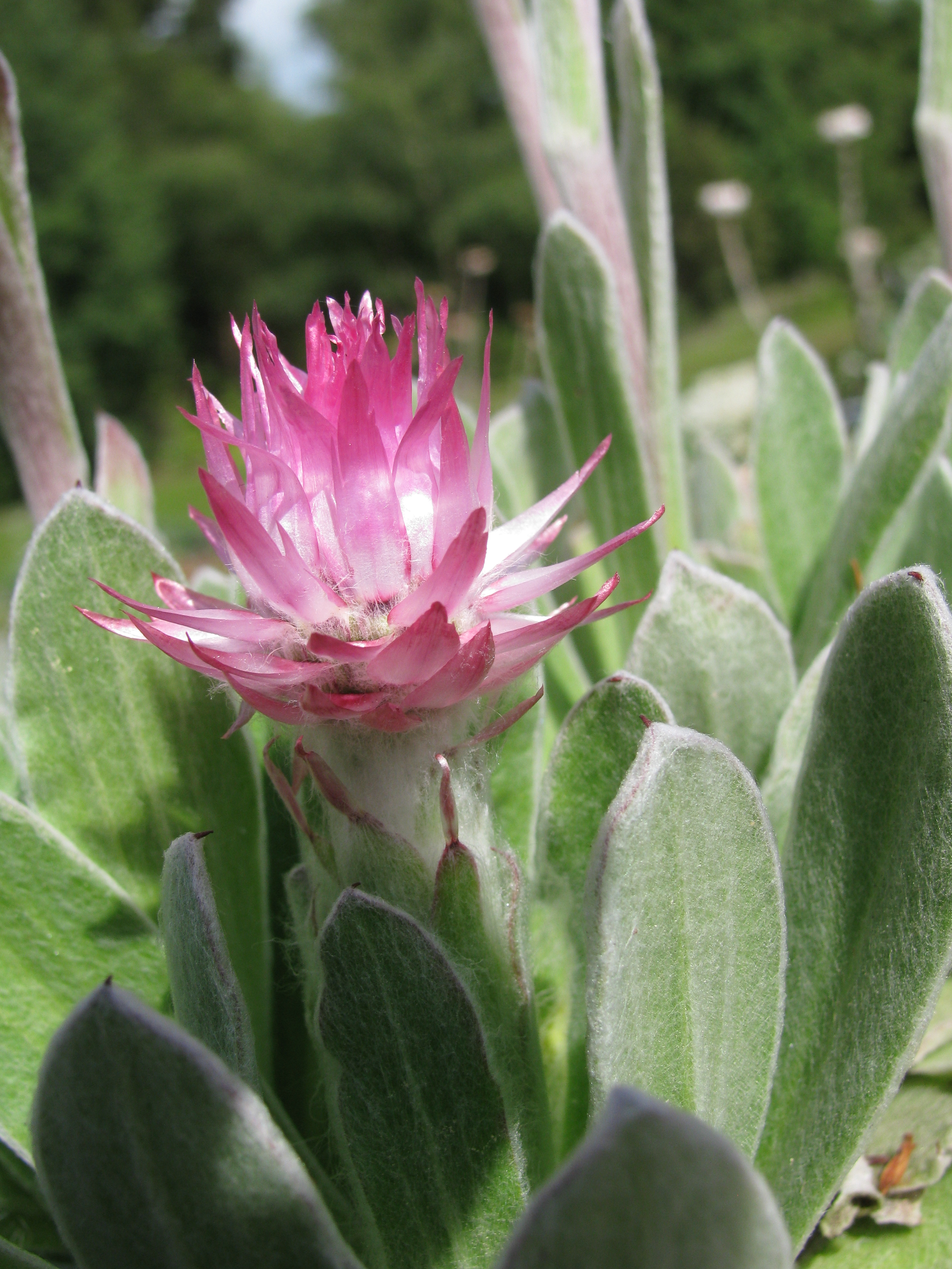 Ecklon's Everlasting Royal Botanic Garden Edinburgh: Accession number 1996.0180 B